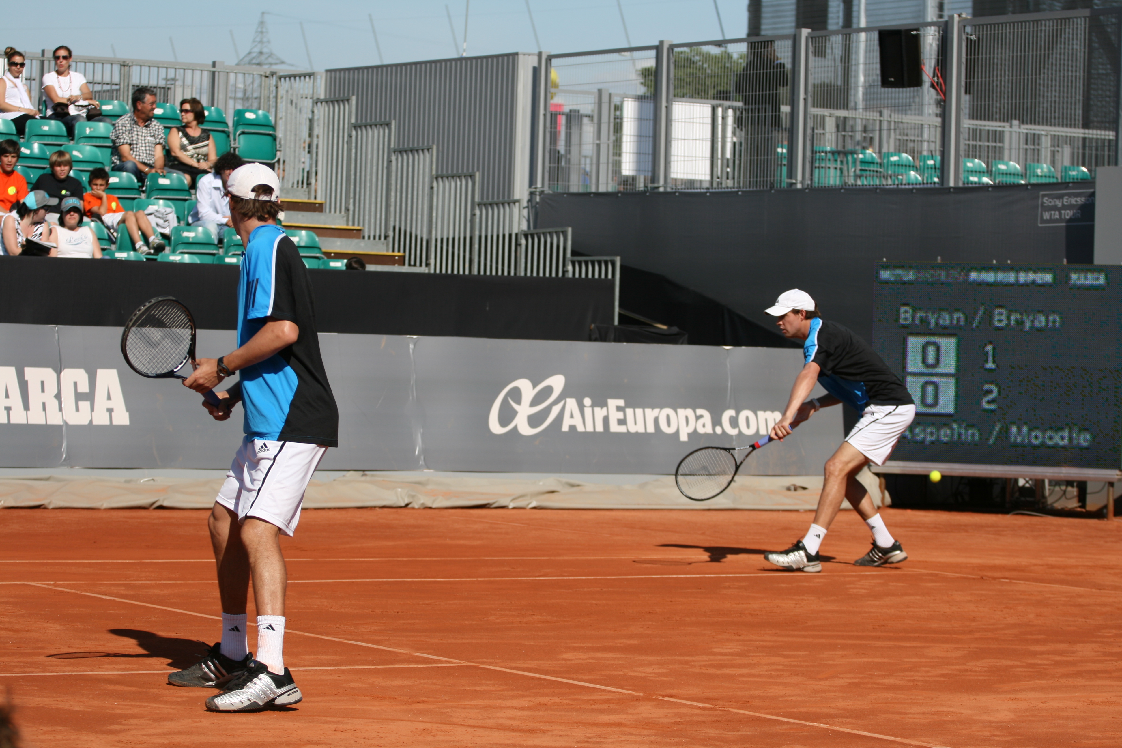 Bob Bryan (right) and Mike Bryan (left) against Simon Aspelin and Wesley Moodie in the 2009 Mutua Madrileña Madrid Open second round